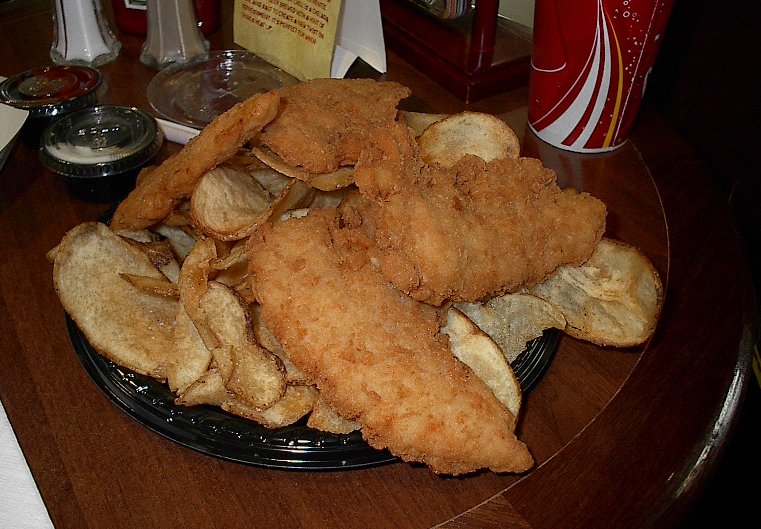 Chicken and chips as served at Detroit Metro's Irish Pub. Chicken and chips is a combination of foods predominantly consumed in the United Kingdom, but also available in the United States. It consists of a piece of fried chicken and chips.